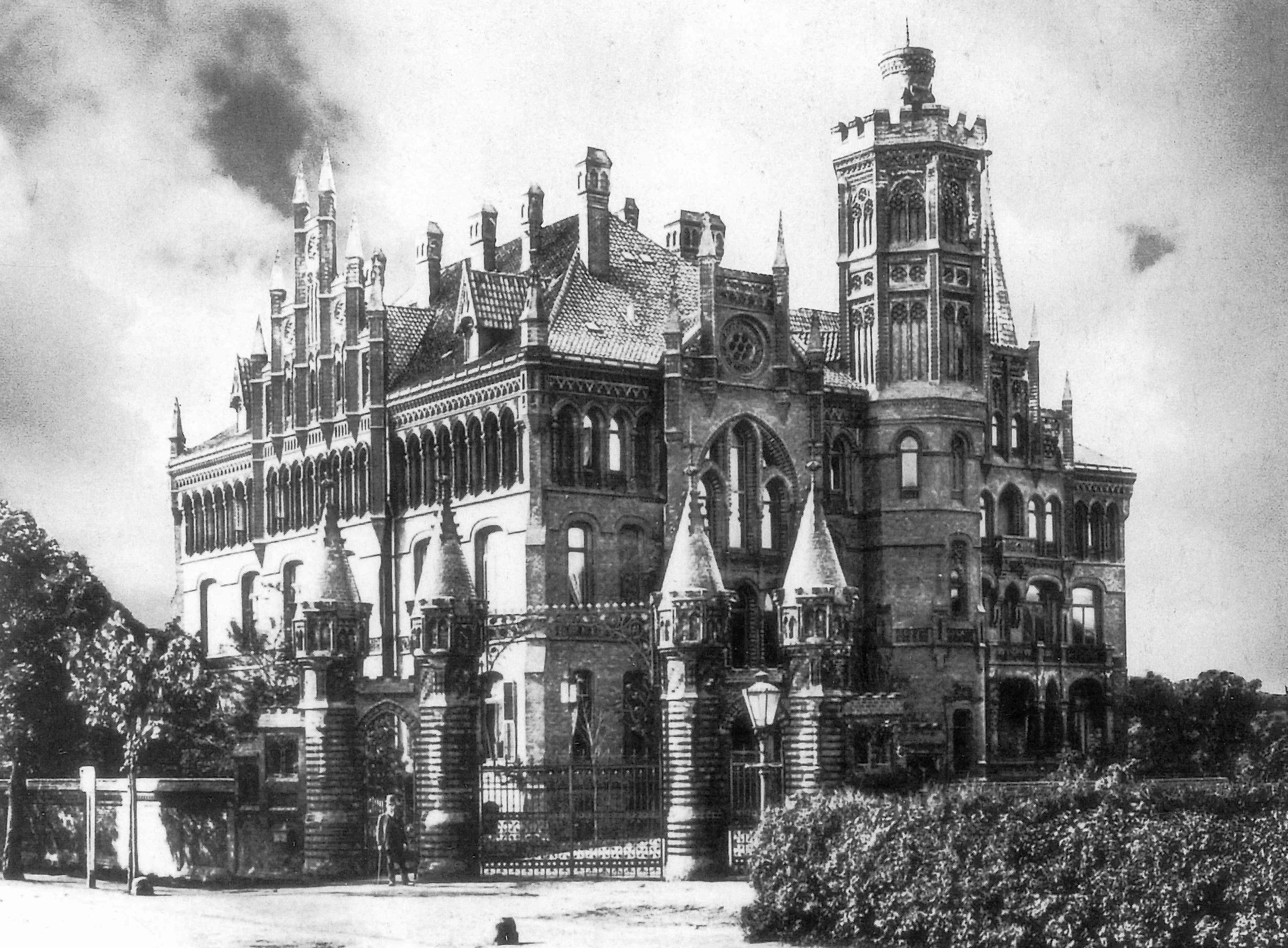 Contemporary photograph of Villa Willmer building, located at Hildesheimer Chaussee (today: Hildesheimer Strasse) in Waldhausen quarter of Hannover, Germany. The photographer was Karl Friedrich Wunder. Image taken probably around 1890.